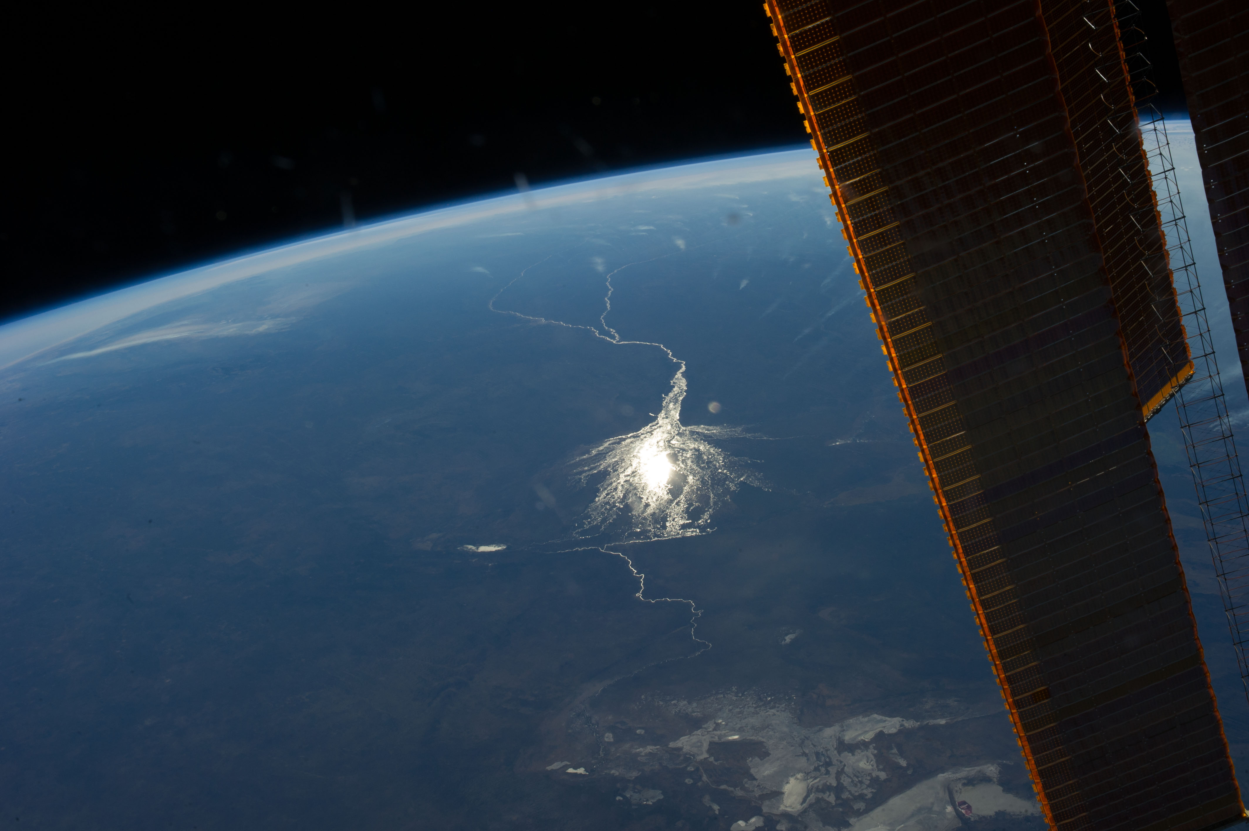 Okavango inland delta in northern Botswana is featured in this image photographed by an Expedition 40 crew member on the International Space Station. The great Okavango delta in the Kalahari Desert is illuminated in the sun's reflection point in this panorama. Using this sun glint technique, crew members can image fine detail of water bodies. Here the bright line of the Okavango River shows the annual summer flood advancing from the well-watered Angolan Highlands (upper margin) to the delta. Then the flood water slowly seeps across the 150 kilometer-long delta, supplying forests and wetlands, finally reaching the fault-bounded lower margin of the delta in the middle of winter. Most of the water of this large river is used up by the forests, or evaporates in the dry air. Only two percent of the river's water actually exits the delta. The wetland supports high biodiversity in the middle of the otherwise semiarid Kalahari Desert, and is now one of the most famous tourist sites in Africa. This view also shows the small quantity of water in the Boteti River. Okavango water only reaches the dry lake floors (lower right) in the wettest years. Part of one of the station's solar arrays is visible at right.